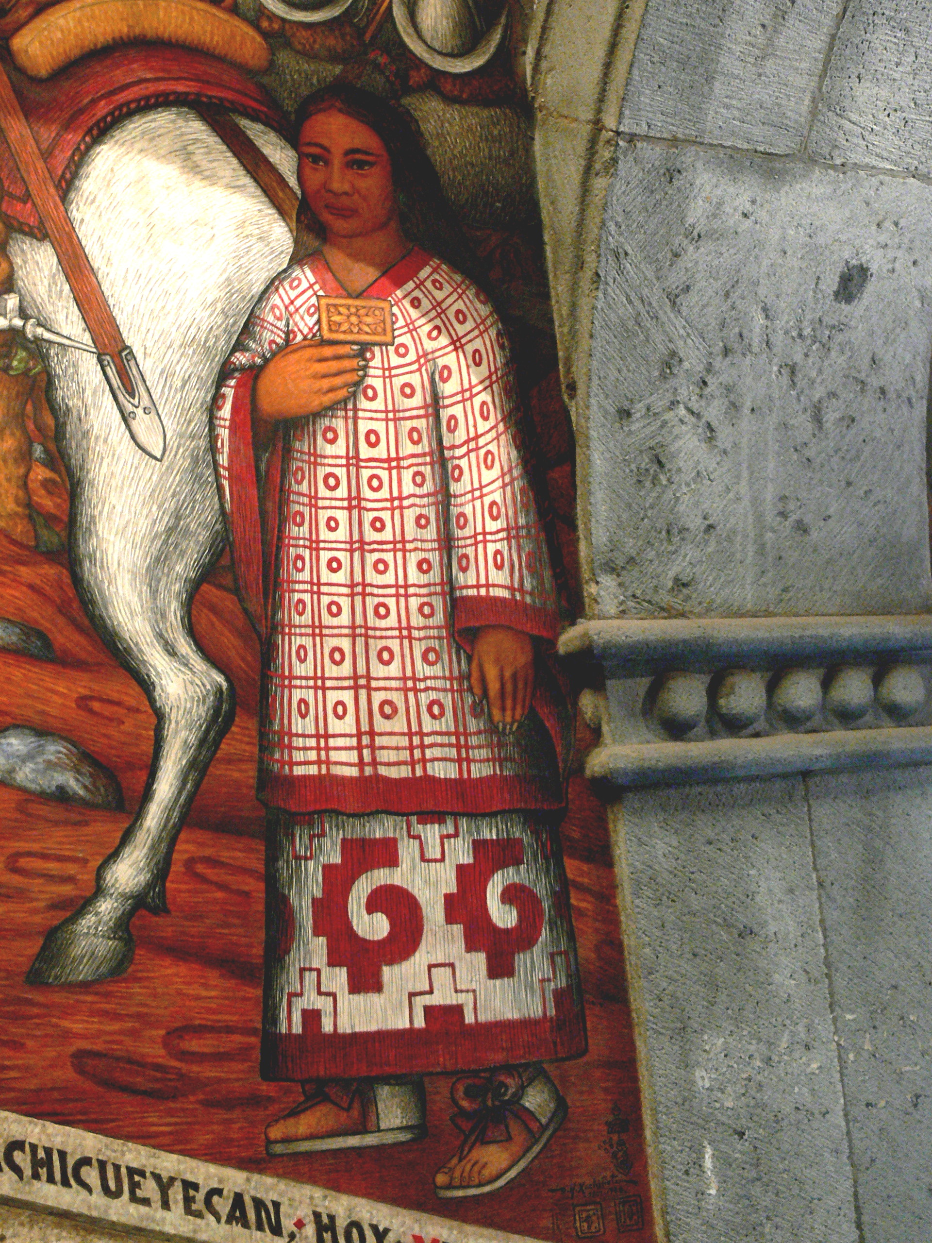 Tlaxcala city. Palacio de Gobierno: Murals - Malinche, interpretor of Hernan Cortes.